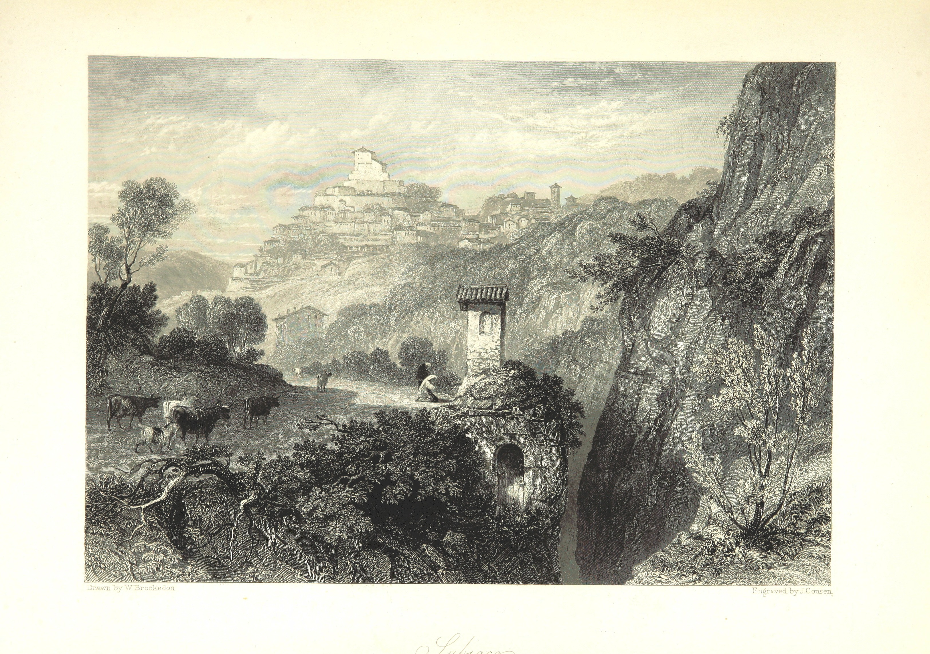 Image taken from: Title: "Italy, illustrated and described, in a series of views from drawings by Stanfield, R.A., Roberts, R.A., Harding, Prout, Leitch, Brockedon, Barnard, &c. &c. With descriptions of the scenes. And an introductory essay. on the political, religious, and moral state of Italy. By Camillo Mapei [translated by David Dundas Scott] ... And a sketch of the history and progress of Italy during the last fifteen years, 1847-62, in continuation of Dr. Mapei's essay. By the Rev. Gavin Carlyle", "Appendix. Travels, etc" Contributor: BROCKEDON, William. Contributor: SCOTT, David Dundas. Contributor: Stanfield, Clarkson Author: Italy Shelfmark: "British Library HMNTS 10151.f.6." Page: 479 Place of Publishing: London Date of Publishing: 1864 Publisher: Blackie & Son Issuance: monographic Identifier: 001828371 Rotated by Mac9